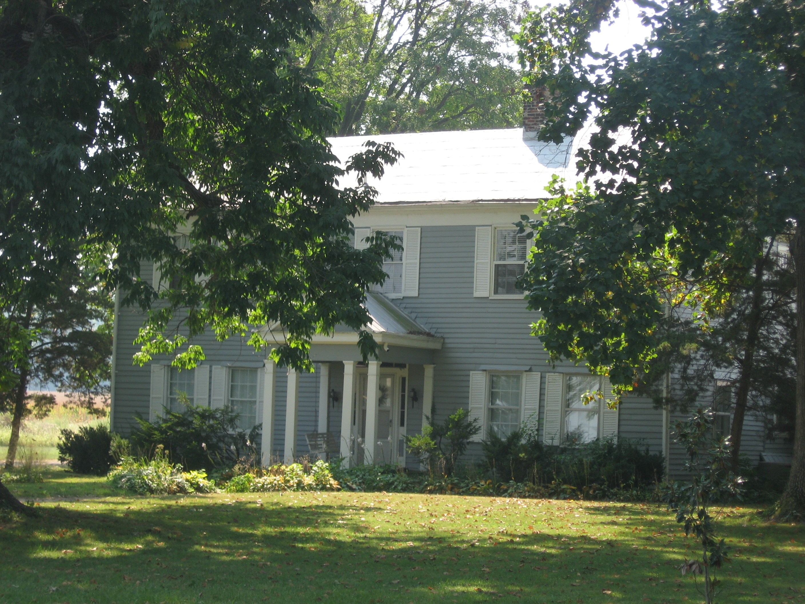 Front of the James Elliott Farmhouse, located at 1221 Church Street (State Road 66) on the eastern edge of New Harmony, Indiana, United States. Built in 1826, the farmhouse and several related buildings are listed together on the National Register of Historic Places.